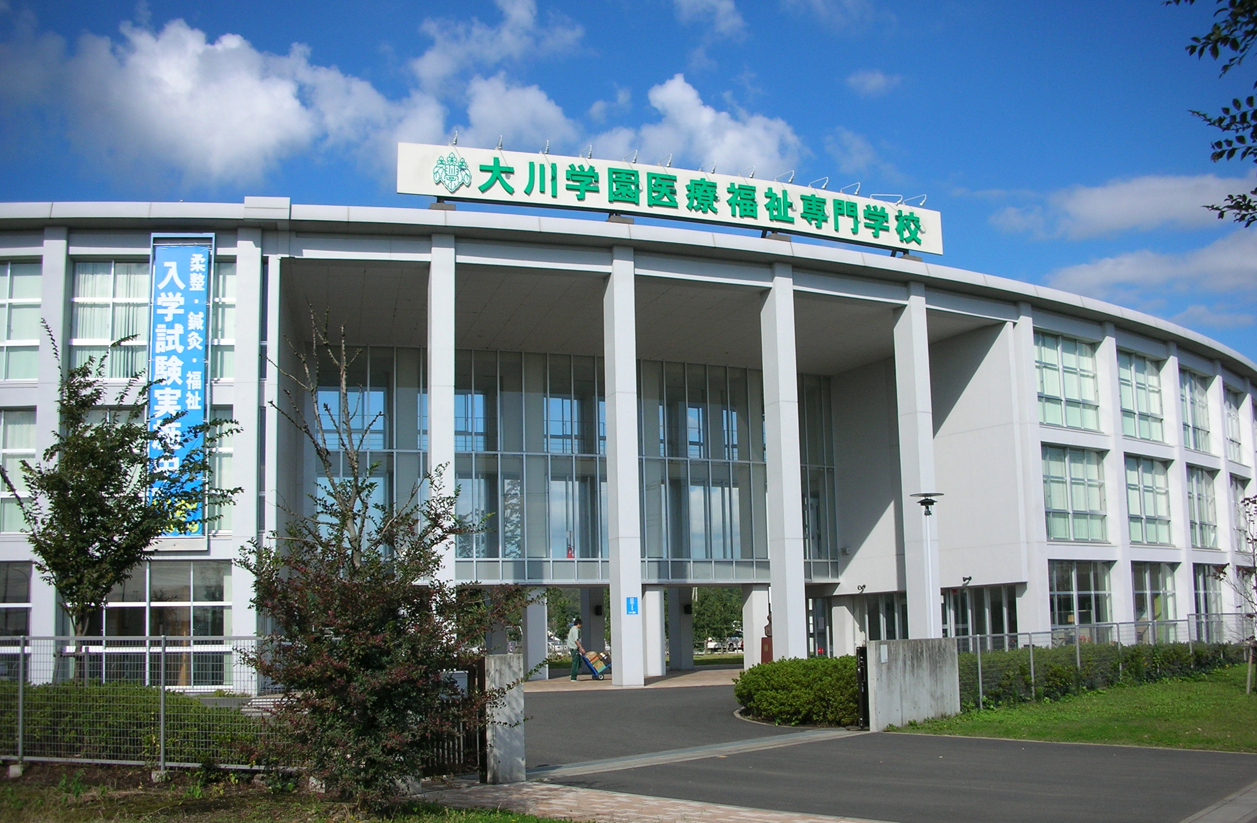 Ohkawa Gakuen Medical & Welfare College